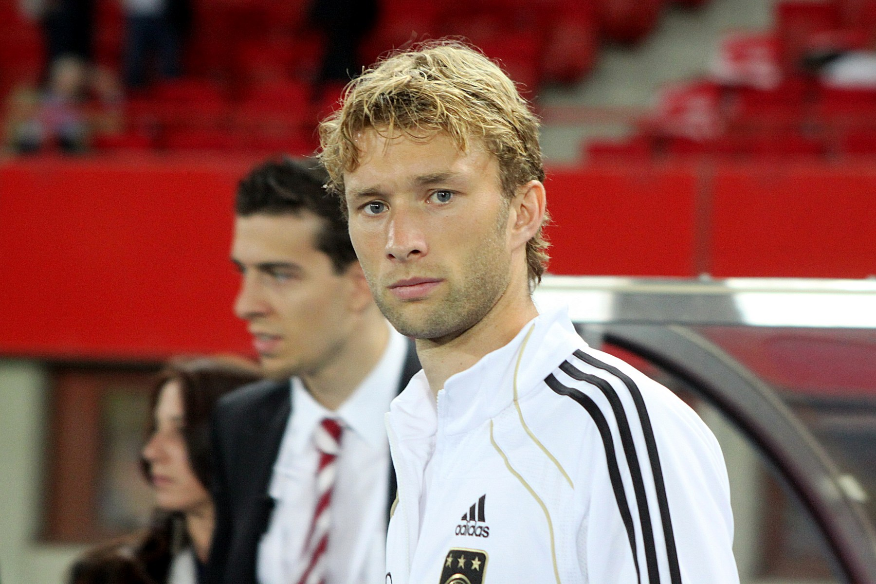 Simon Rolfes (Bayer 04 Leverkusen), german national football team - OpenStreetMap(Info)